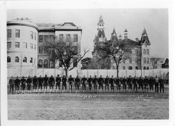 Baylor football team turn of the Century